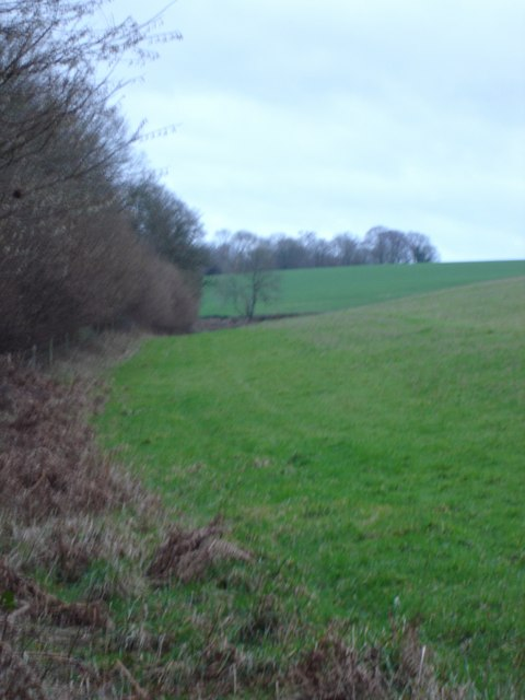 Handcock's Bottom